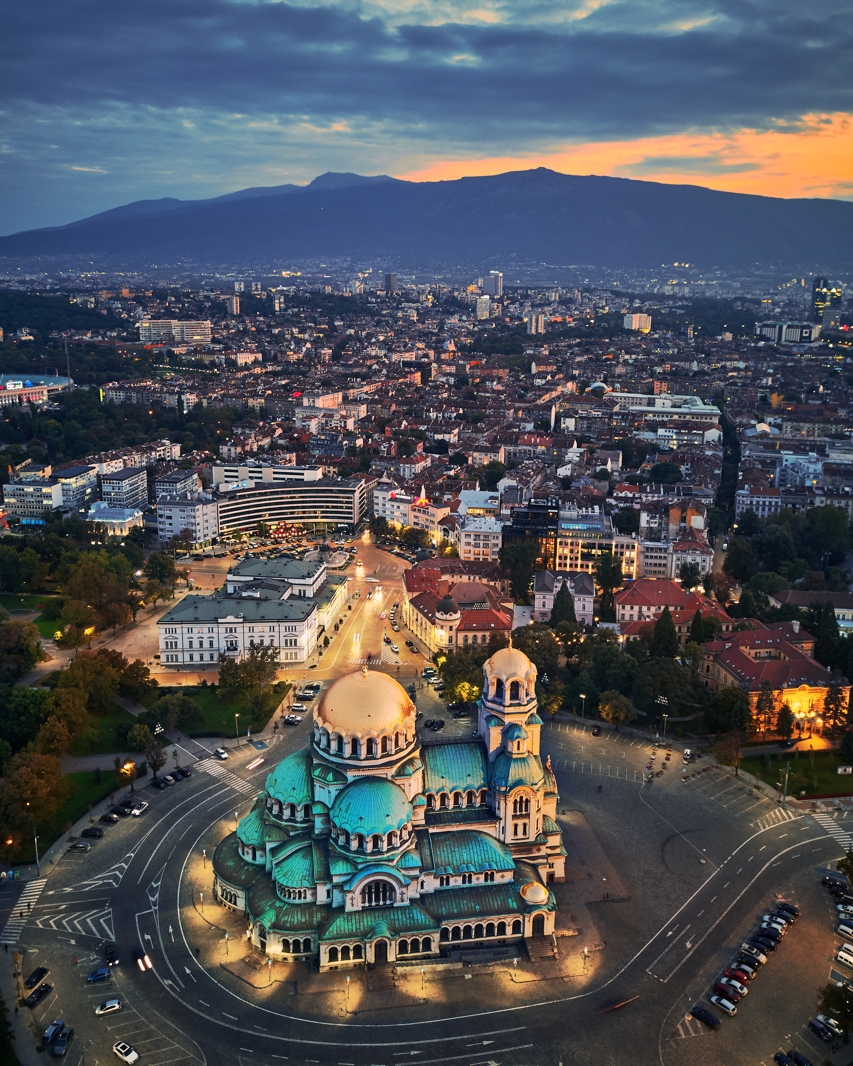 Cathedral Saint Alexander Nevsky